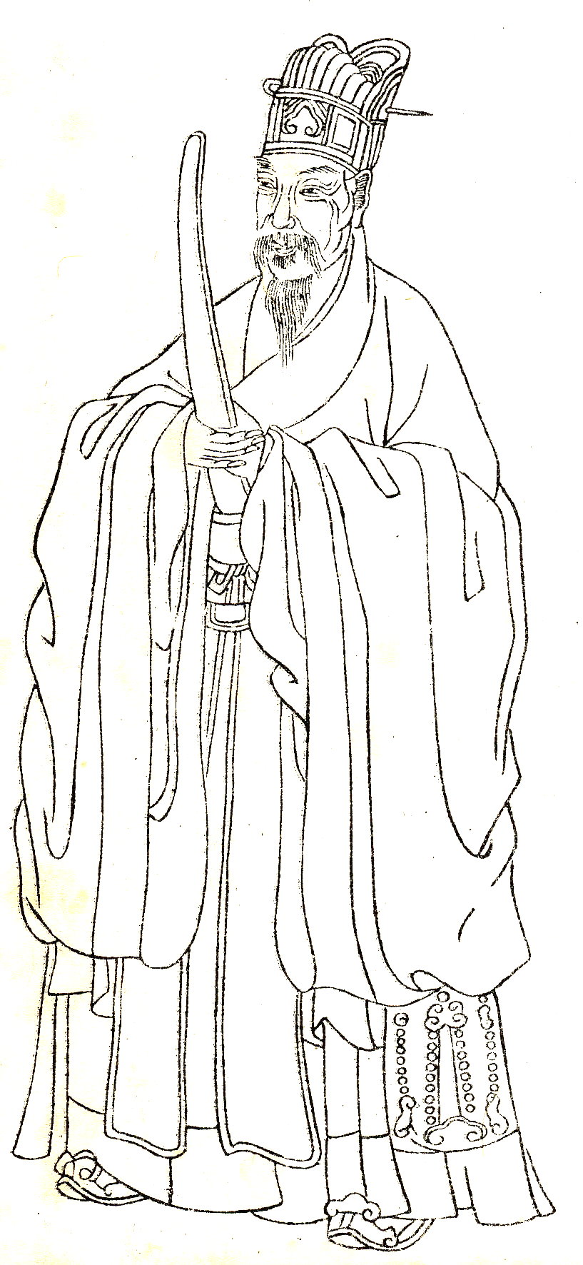 Liu Ji（劉基, 1311 -1375） was a Chinese military strategist, officer, statesman and poet of the late Yuan and early Ming dynasty.